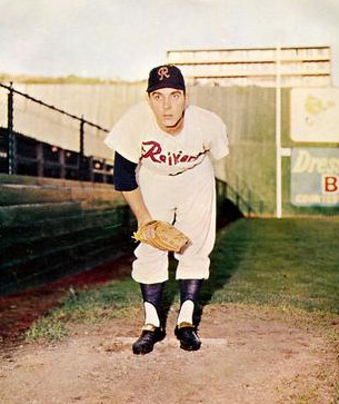 Professional baseball player Don Rudolph